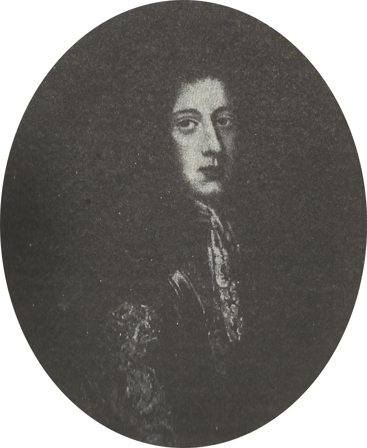 Luís Ambrósio Pereira de Melo (1679-1700), 2nd Duke of Cadaval